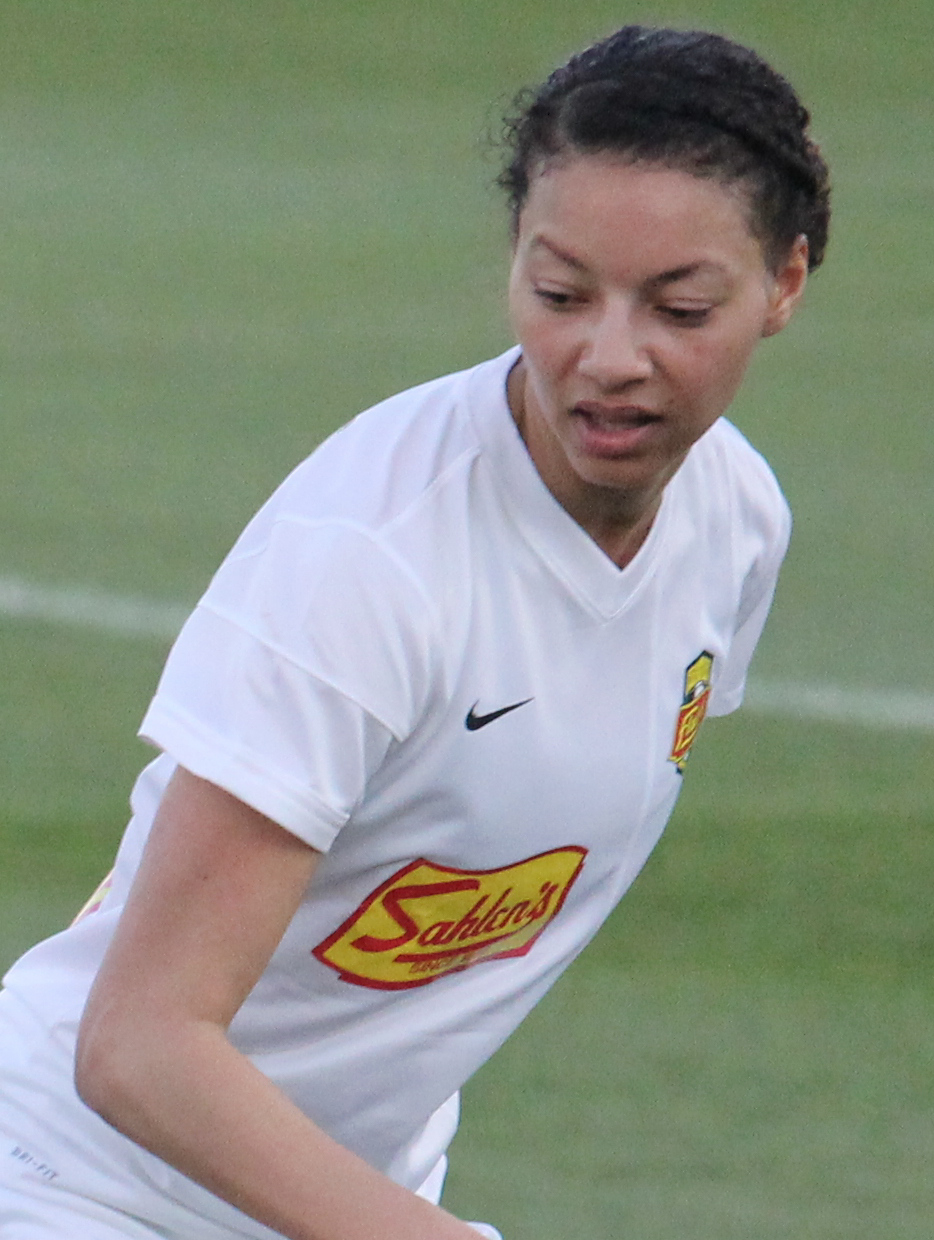 Estelle Johnson (Western New York Flash)